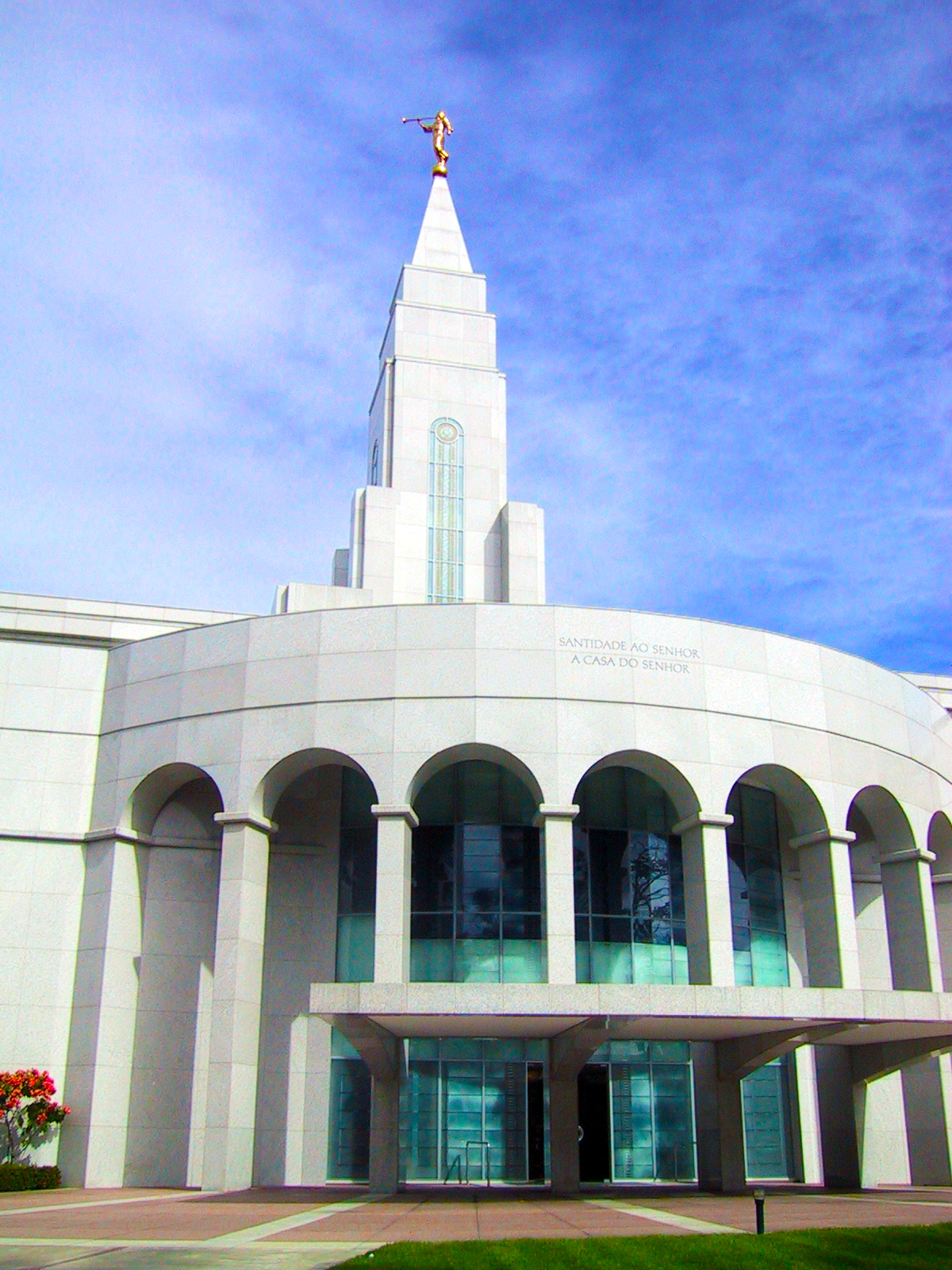 The Recife Brazil Temple of The Church of Jesus Christ of Latter-day Saints in 2003